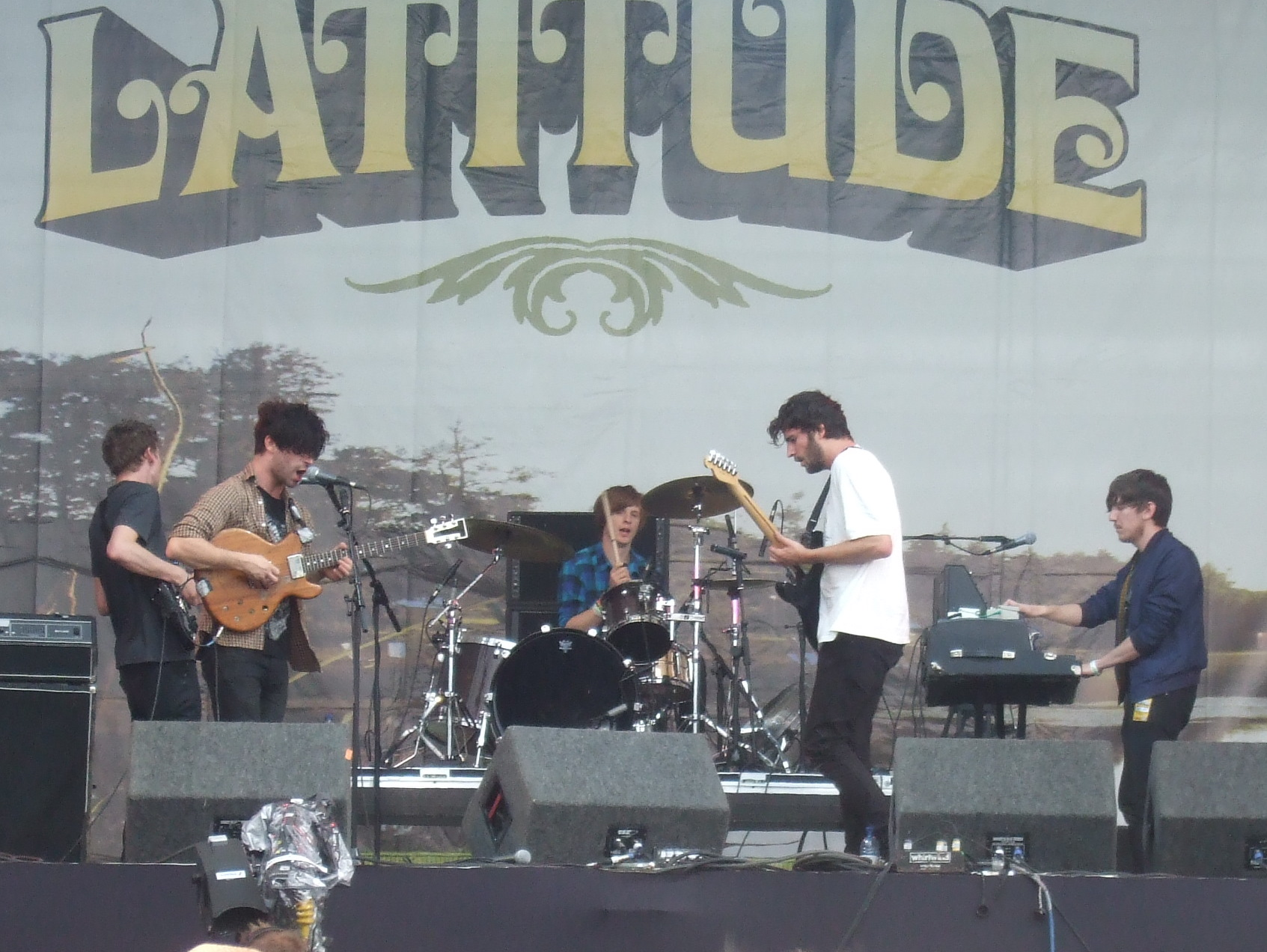 Foals at the 2008 Latitude Festival.